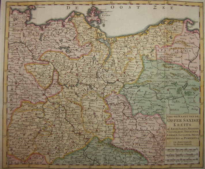 Map of the Upper Saxonian Region of the Holy Roman Empire, edited by Isaak Tirion (1705-1765), bookseller an editor in Amsterdam